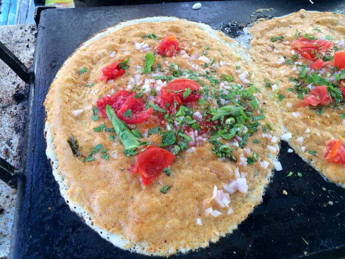 making of masala dosa 2